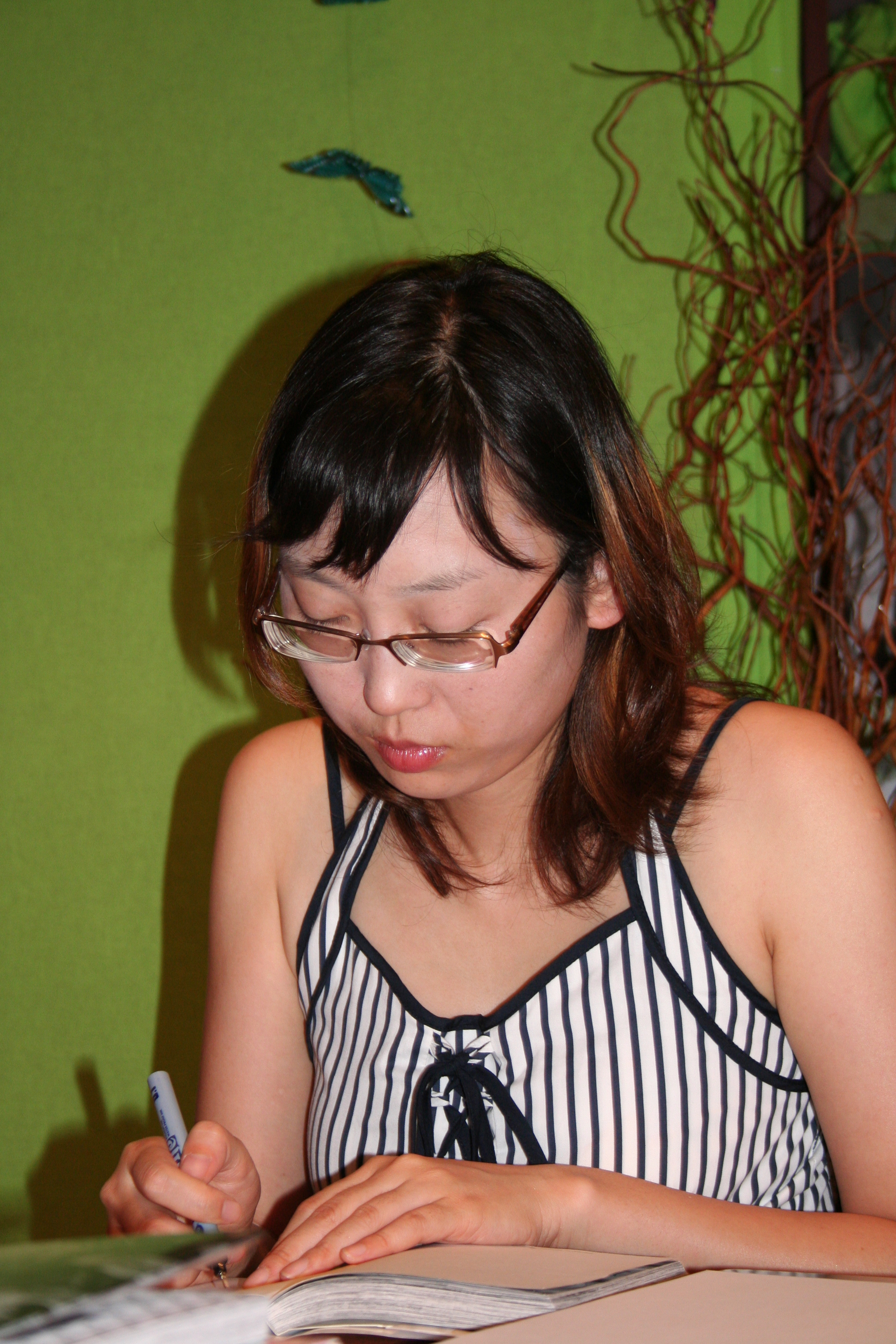 Autograph session with Lee Young-you at Fnac Italie (Paris, France).